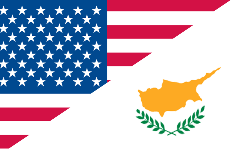 Cyprus-USA flag combination